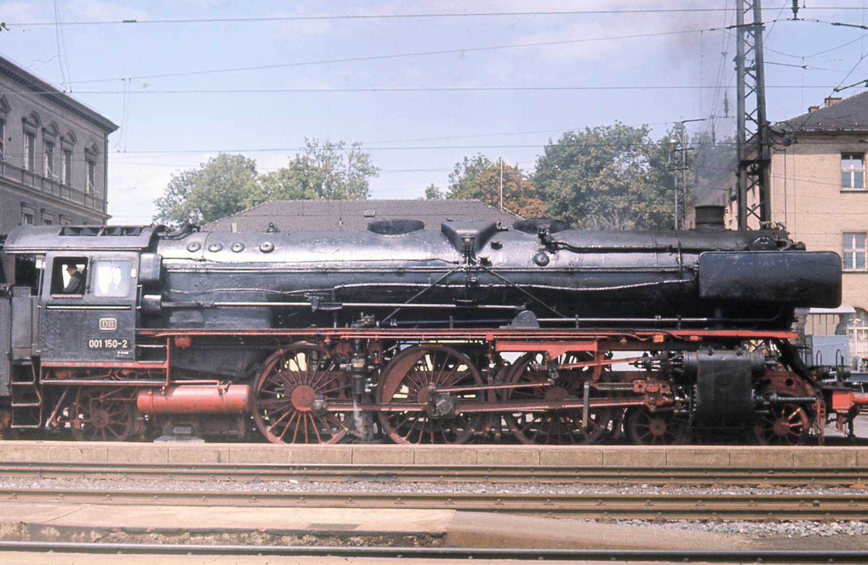 01 150 pacific at Regensburg on a Hof train: summer 73, its last year of service.